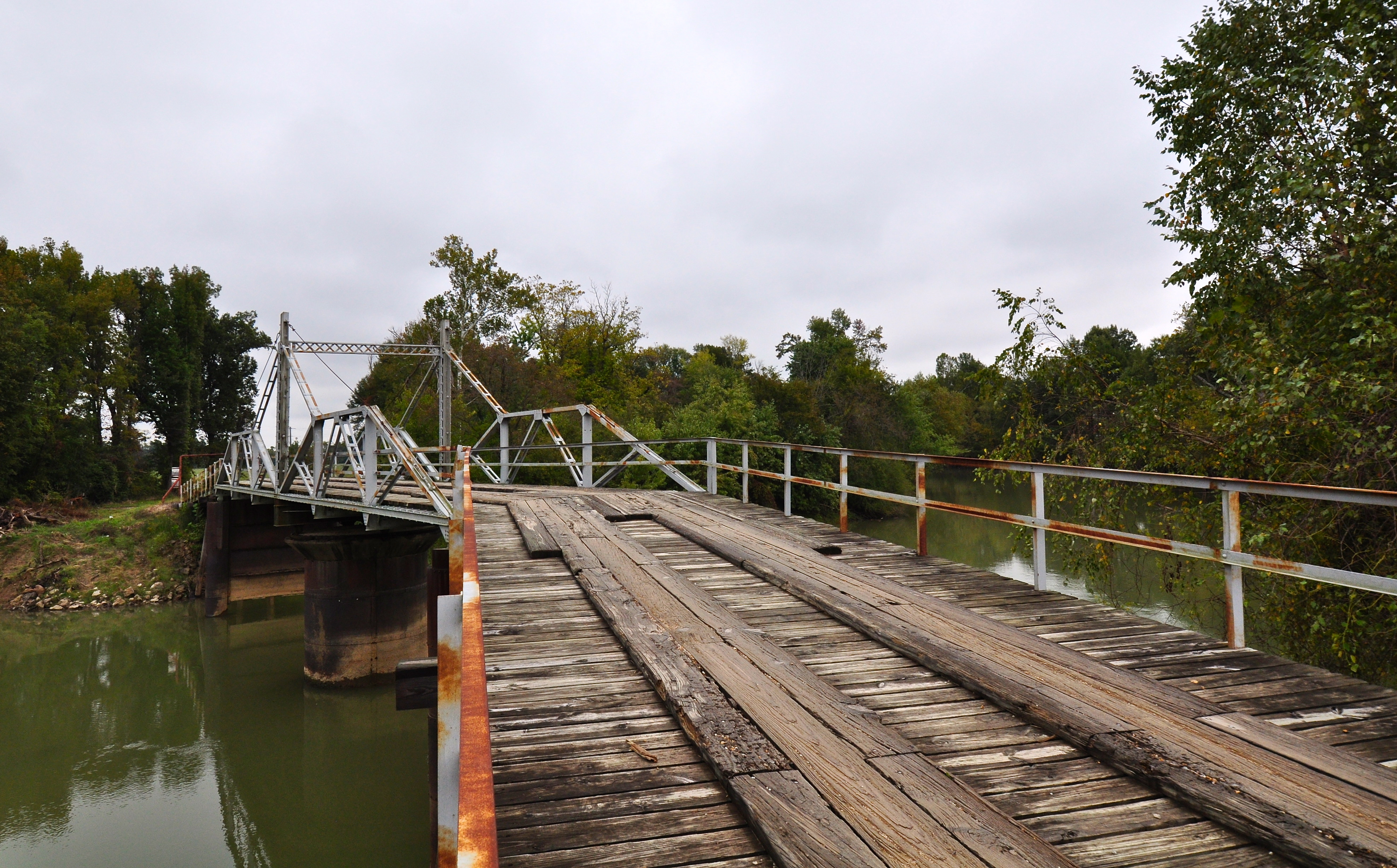 Hargrove Pivot Bridge, Carries CR 658 over the Black River Poplar Bluff